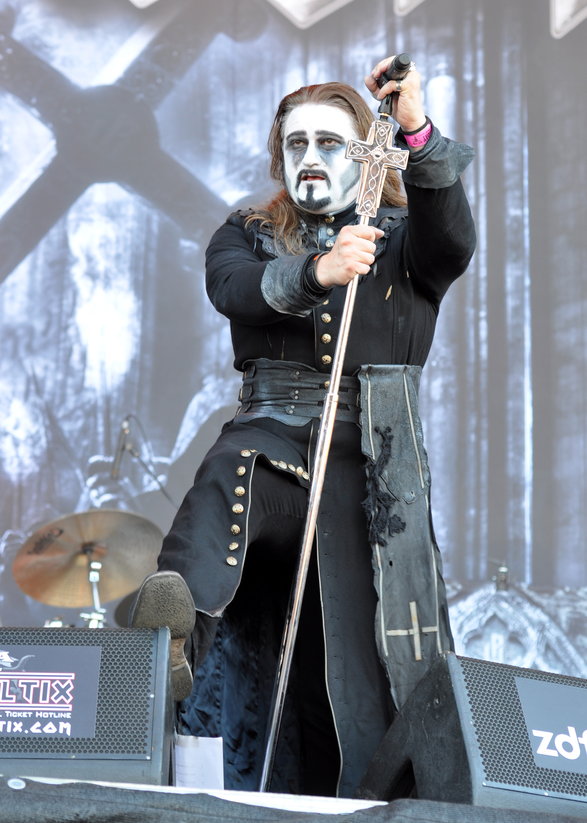 Powerwolf at Wacken Open Air 2013